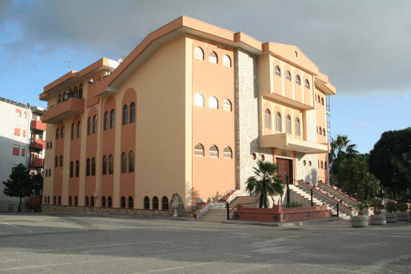 Pentecostal Church of Assemblies of God in Italy, in Reggio Calabria